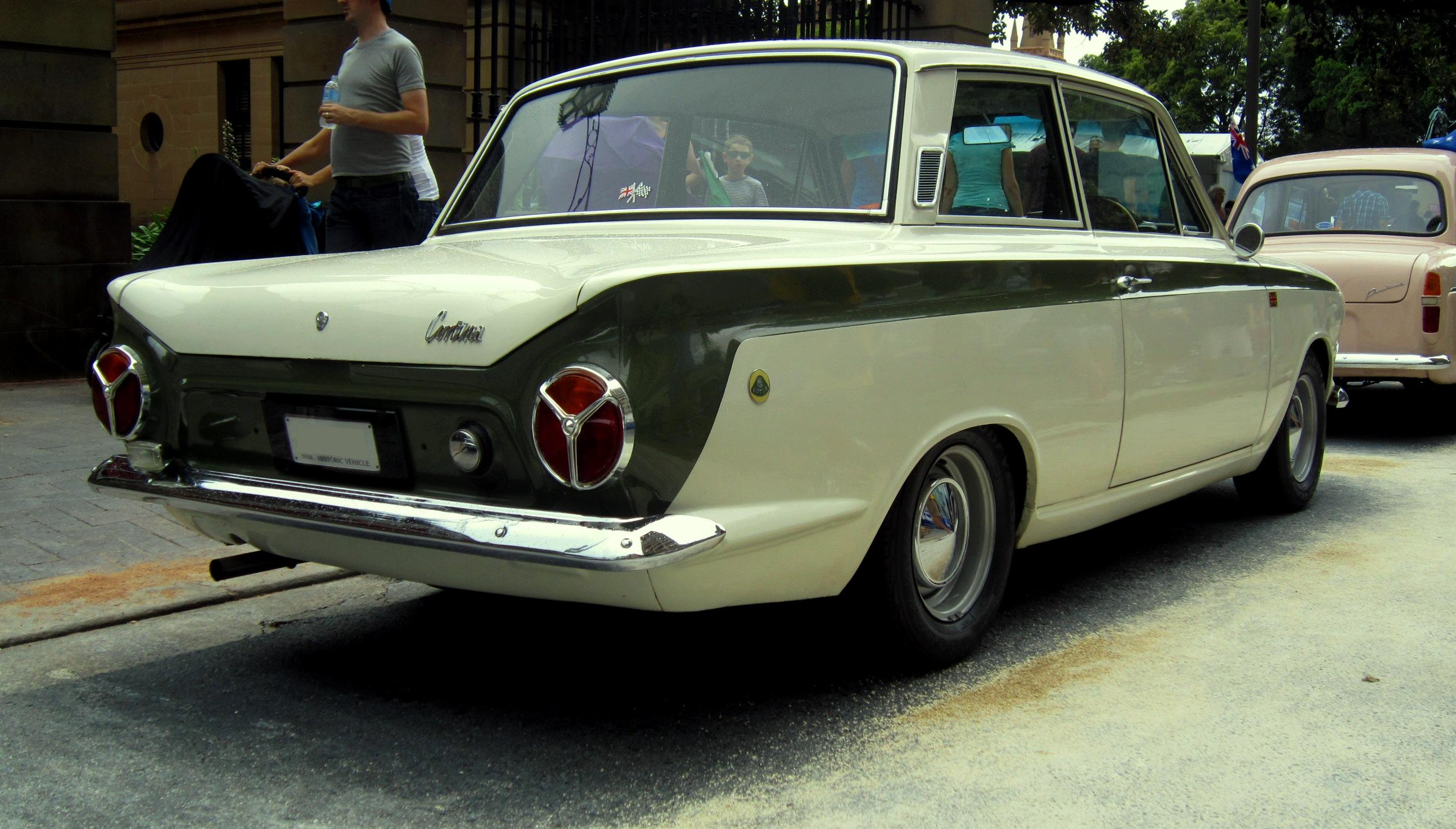 Here is just a sample of over 1000 of the highlighted classics on show, on the day.! You can check out a video preview of the NRMA Motorfest 2011 highlights here; You can also check out the latest NRMA car reviews and tests here at